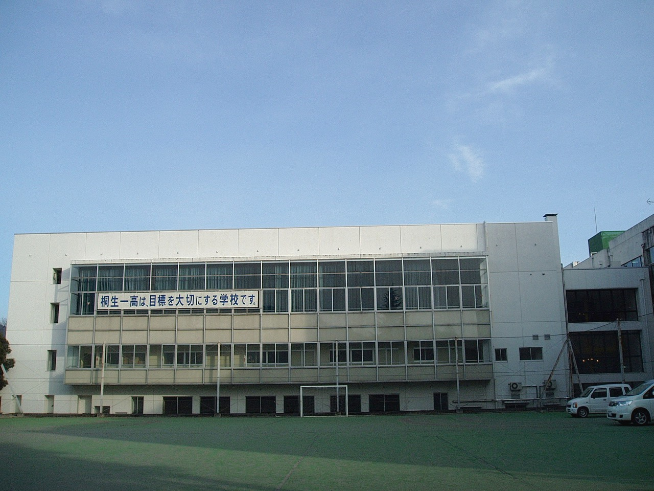 The gymnasium at the 1st Campus, Kiryu Daiichi High School, located in Kiryu, Gunma, Japan.